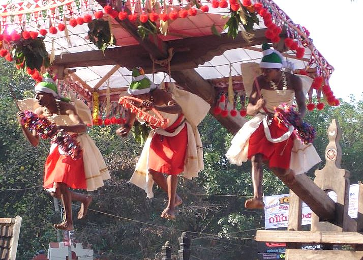 Ezhamkulam thookam